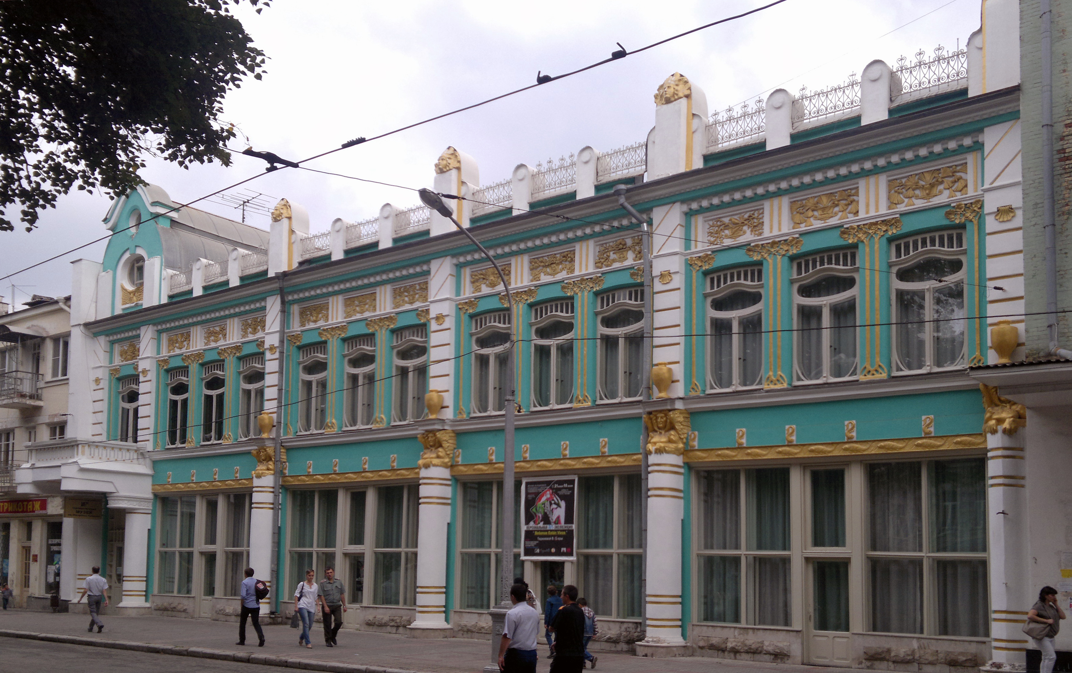 Art Museum named after M. S. Tuganov in Vladikavkaz